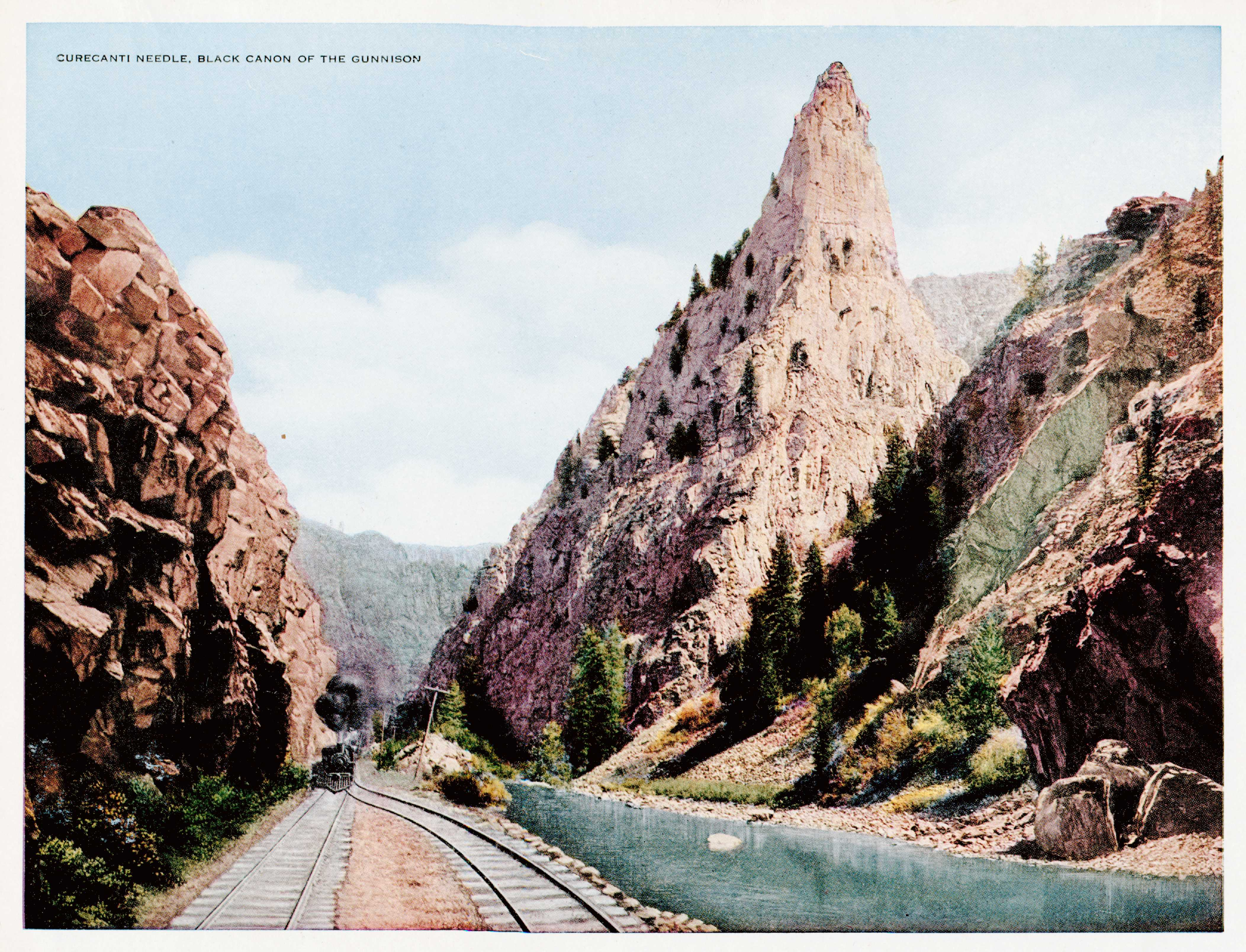 The Curecanti Needle in the Black Canyon of the Gunnison River, Colorado. This is from "Rocky Mountain Views", a promotional book with 22 color plates made "For Sale Only en Route on The Denver & Rio Grande Western Railroad".